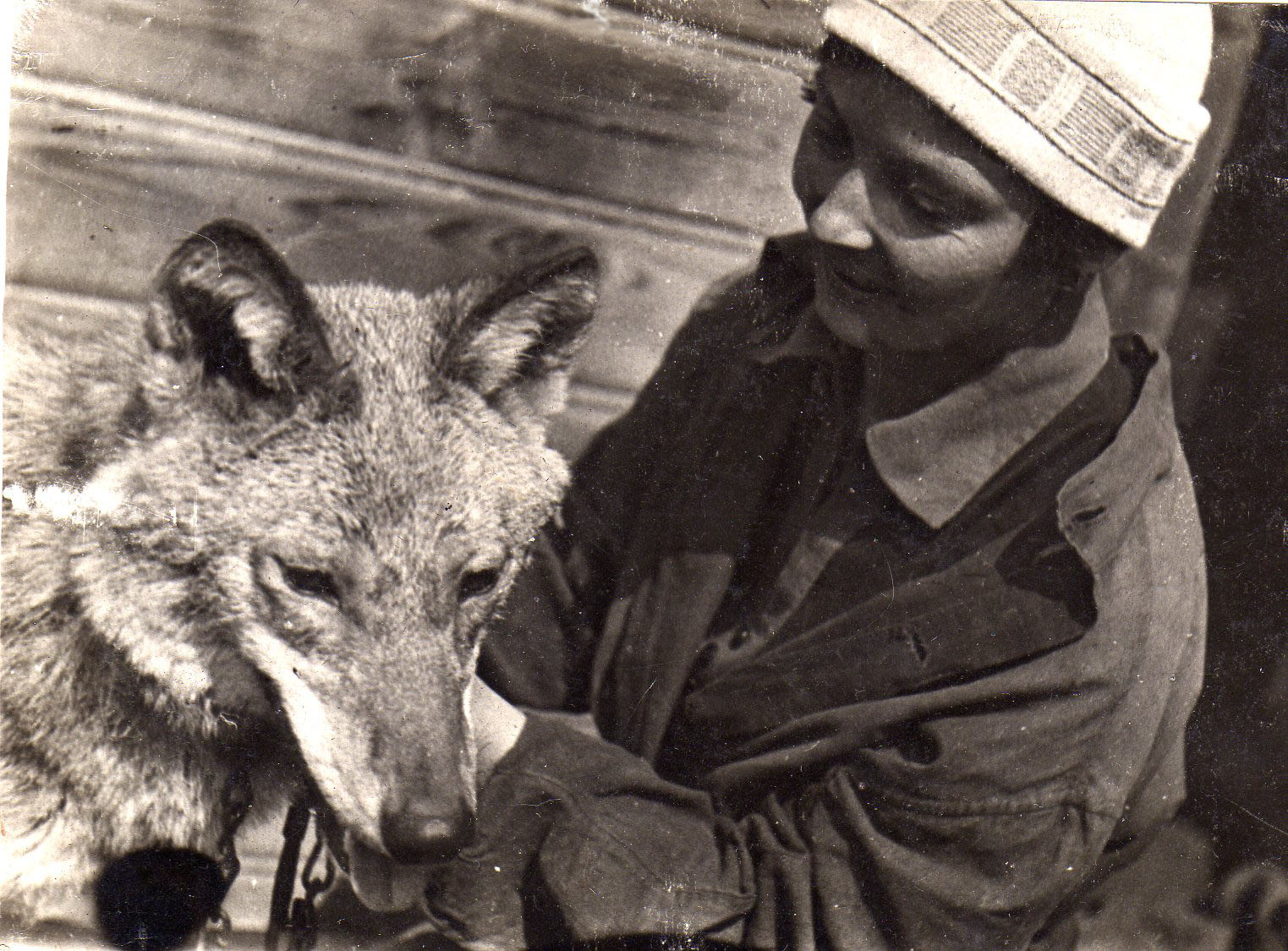 Soviet children's literature writer, naturalist Vera Chaplina (1908 – 1994) and her pupil wolf Argo. Moscow Zoo, 1932.